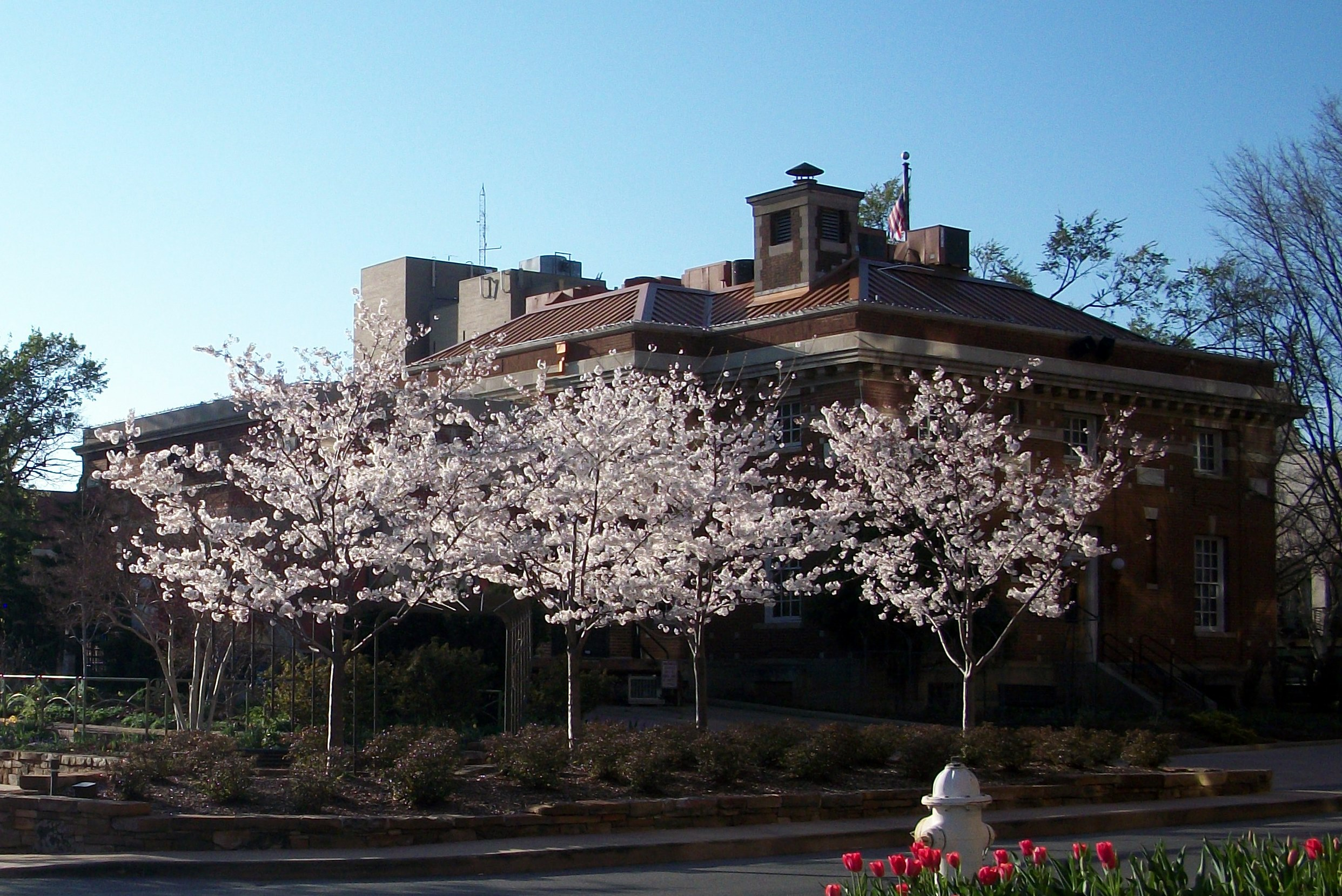 Old Post Office of Fayetteville, Arkansas. Listed on the National Register of Historic Places in Washington County, AR. Centerpiece of the Fayetteville Historic Square.